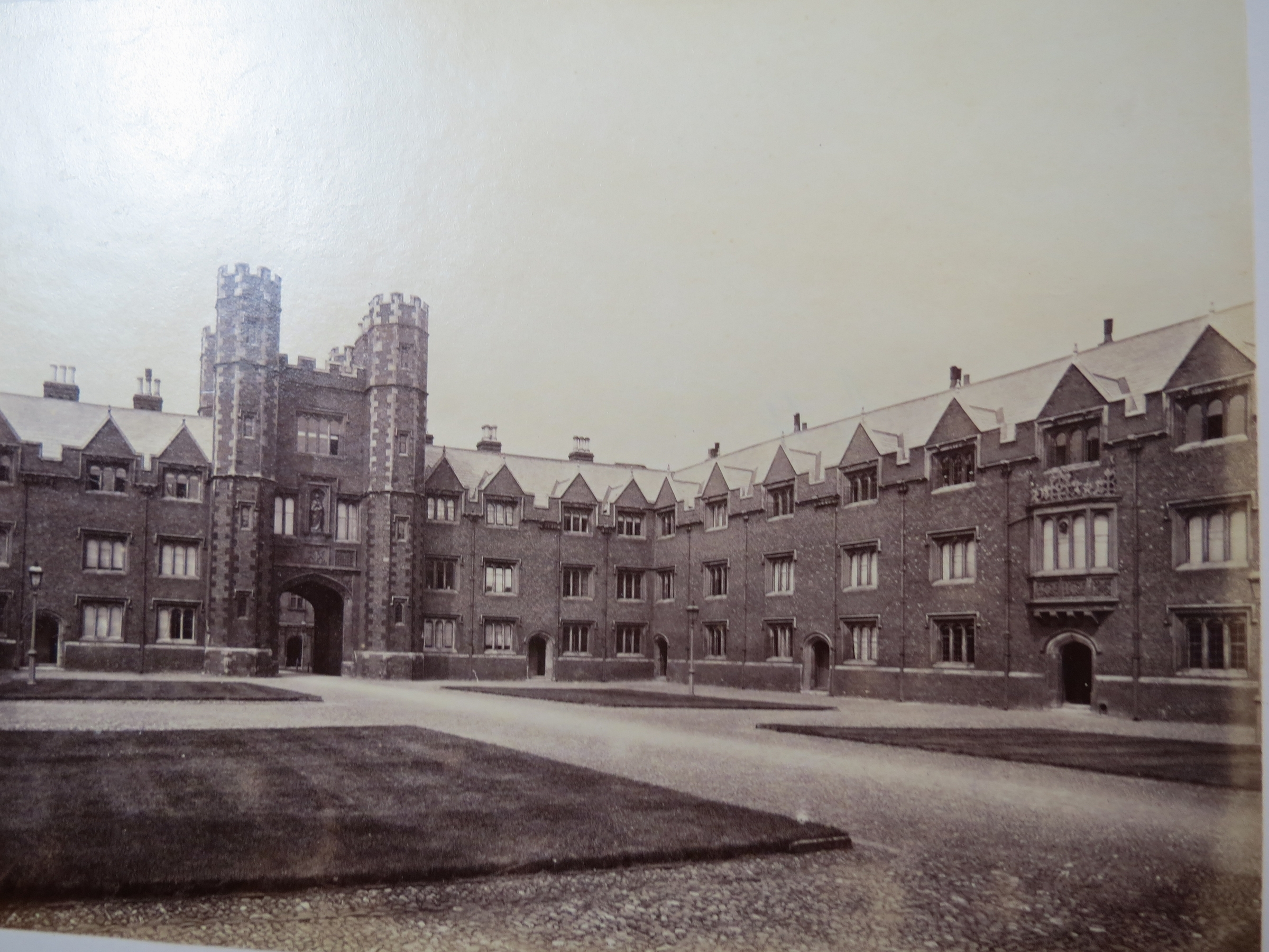 St. John's College, Cambridge University. Second Court, looking towards Third Court, circa 1870. Image taken from original albumen print from a bound album of 58 Cambridge University photographs. Original 19th century album in the possession of Kimberly Blaker, New Boston Fine and Rare Books.